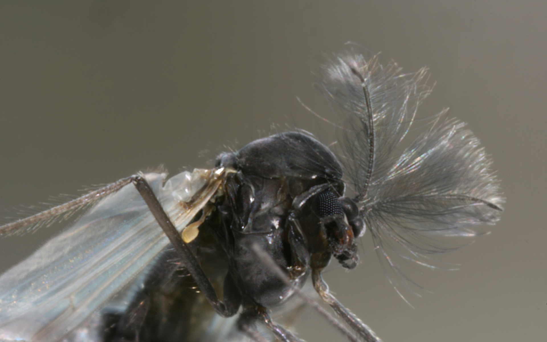 Chaoboridae, commonly known as phantom midges, are a family of fairly common midges with a cosmopolitan distribution. They are closely related to Corethrellidae and Chironomidae; the adults are differentiated through peculiarities in wing venation.